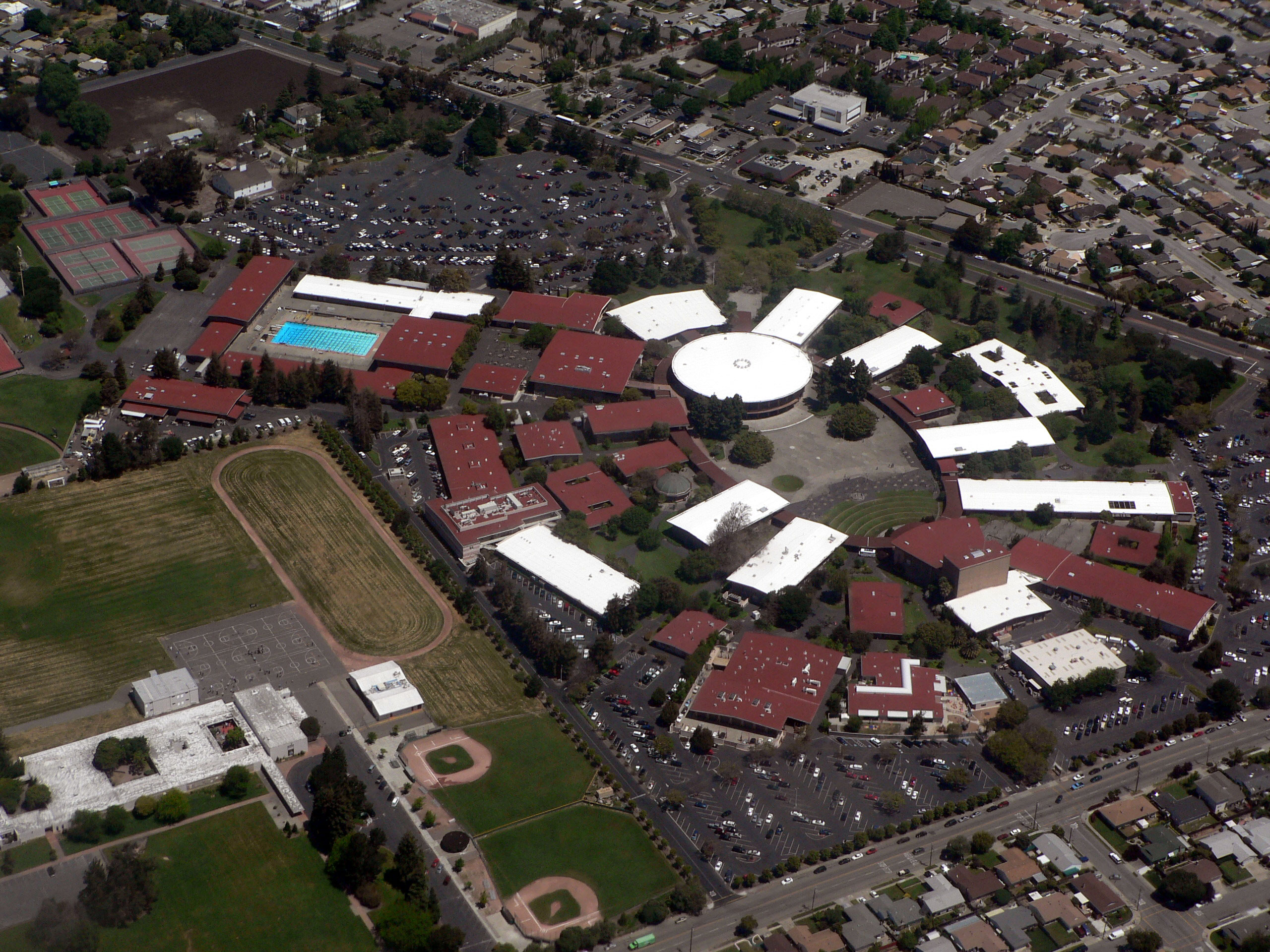 Chabot College; (Hayward, California); Ochoa Middle School (lower left) Viewpoint location: Flight 334 from Seattle/Tacoma, WA to Oakland, CA Alaska Airlines Lat/Long: Maps and aerial photos Topographic map from TopoZone USGS aerial image from MSR Maps (formerly TerraServer-USA) Surrounding area map from Google Maps Viewpoint elevation: ~200 m View direction: Northwest Camera: Panasonic Lumix DMC FZ5